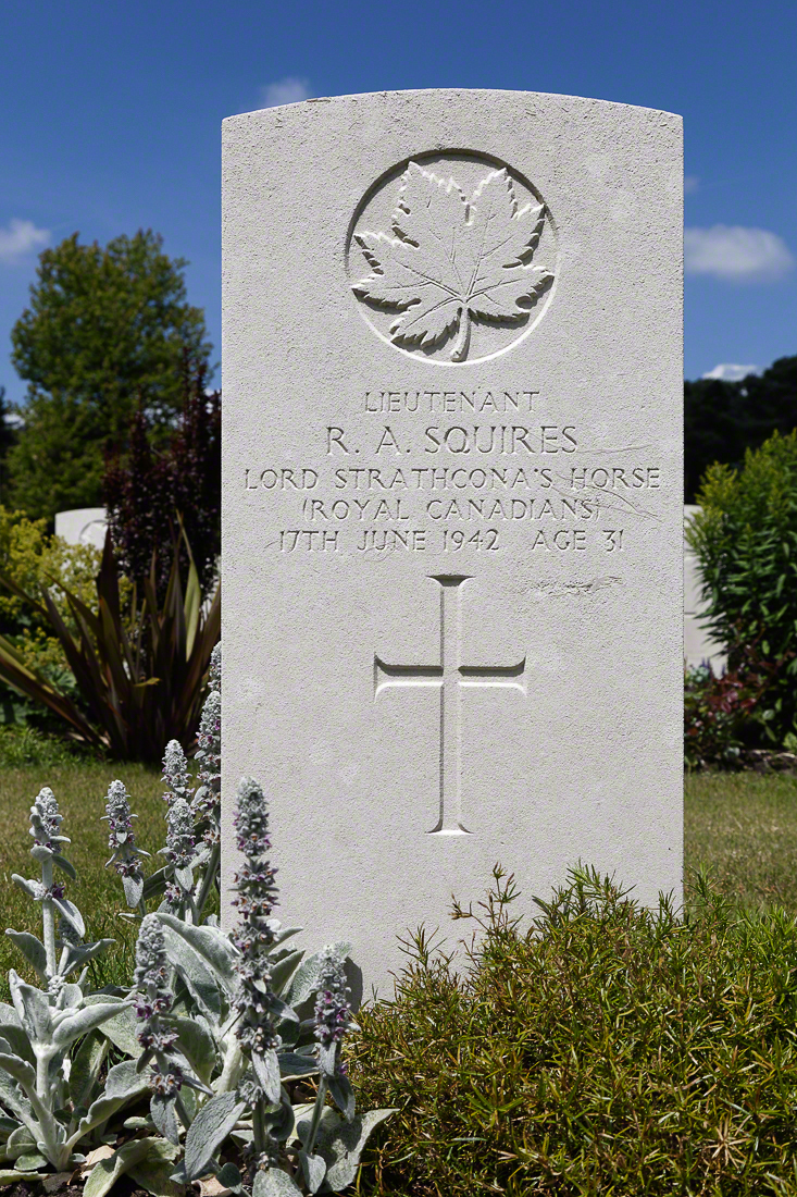 CWGC Brookwood Military Cemetery UK - headstone of Lieutenant Squires son of Newfoundlands last Prime Minister